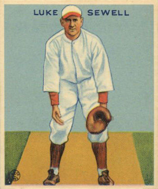 1933 Goudey baseball card of Luke Sewell of the Cleveland Indians #114. PD-not-renewed.